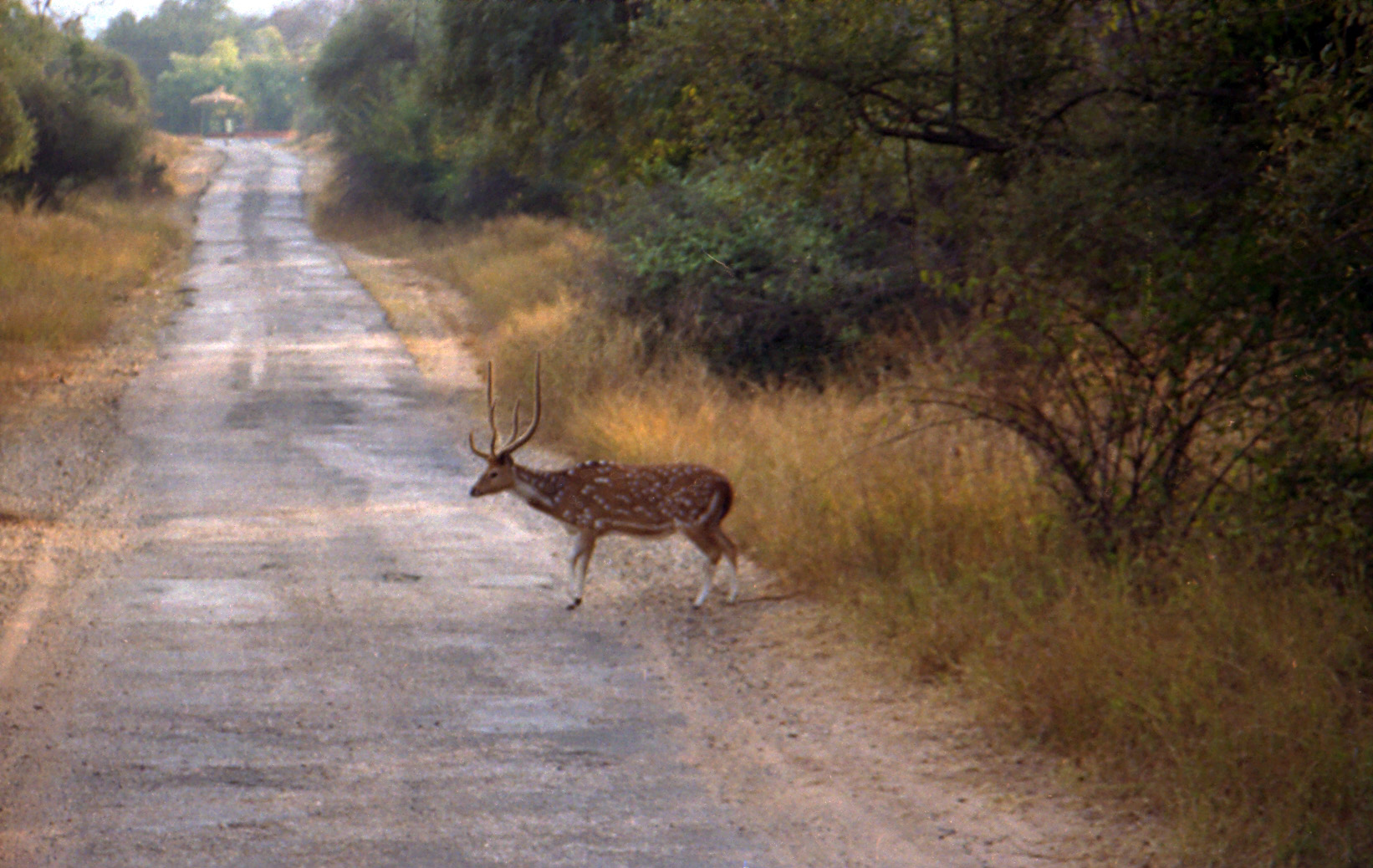 Wildlife spotted on a morning game drive in Sariska Tiger Reserve.